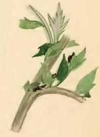 Stainton’s Natural History of the Tineina (1855–1873): Exaeretia allisella